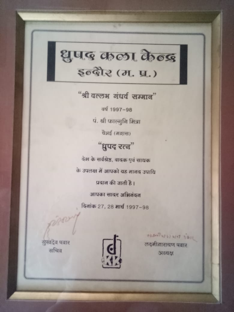 Honour from Kalakendra